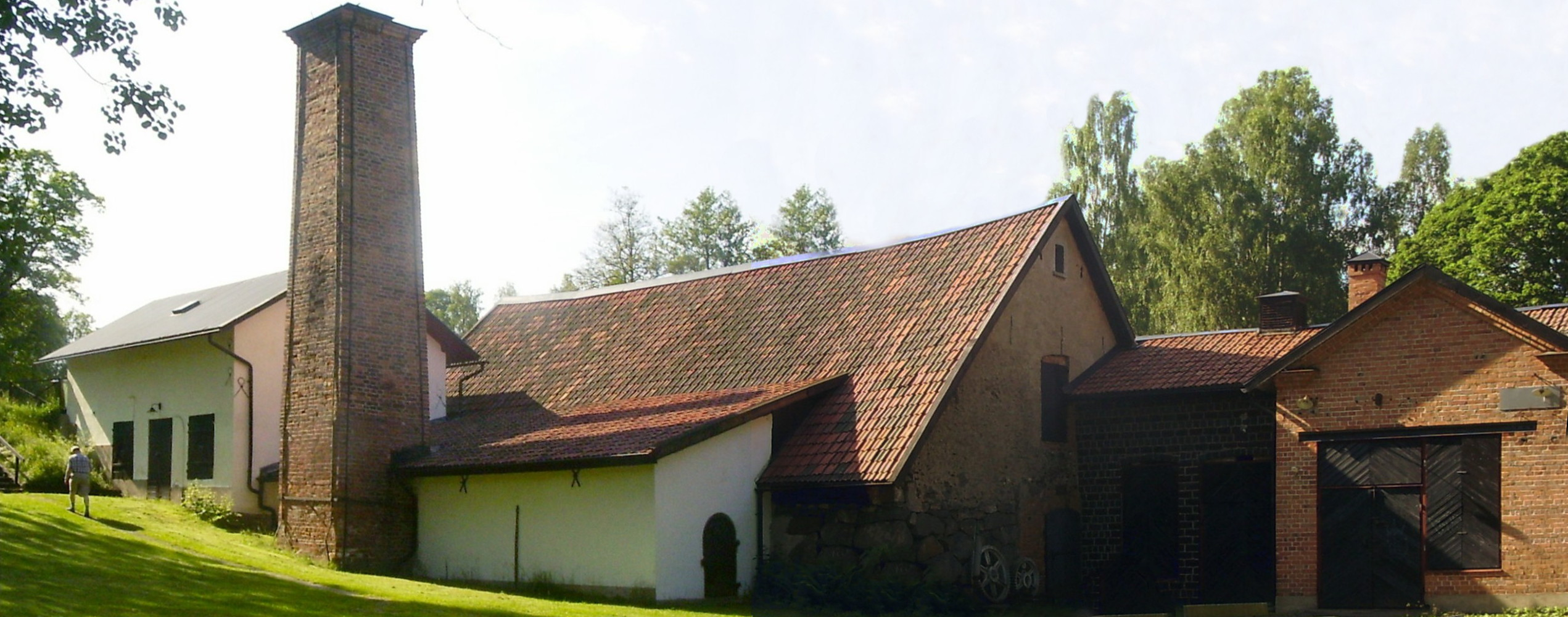 Forge at Trångfors, Hallstahammar. Panorama created with fotoxx.